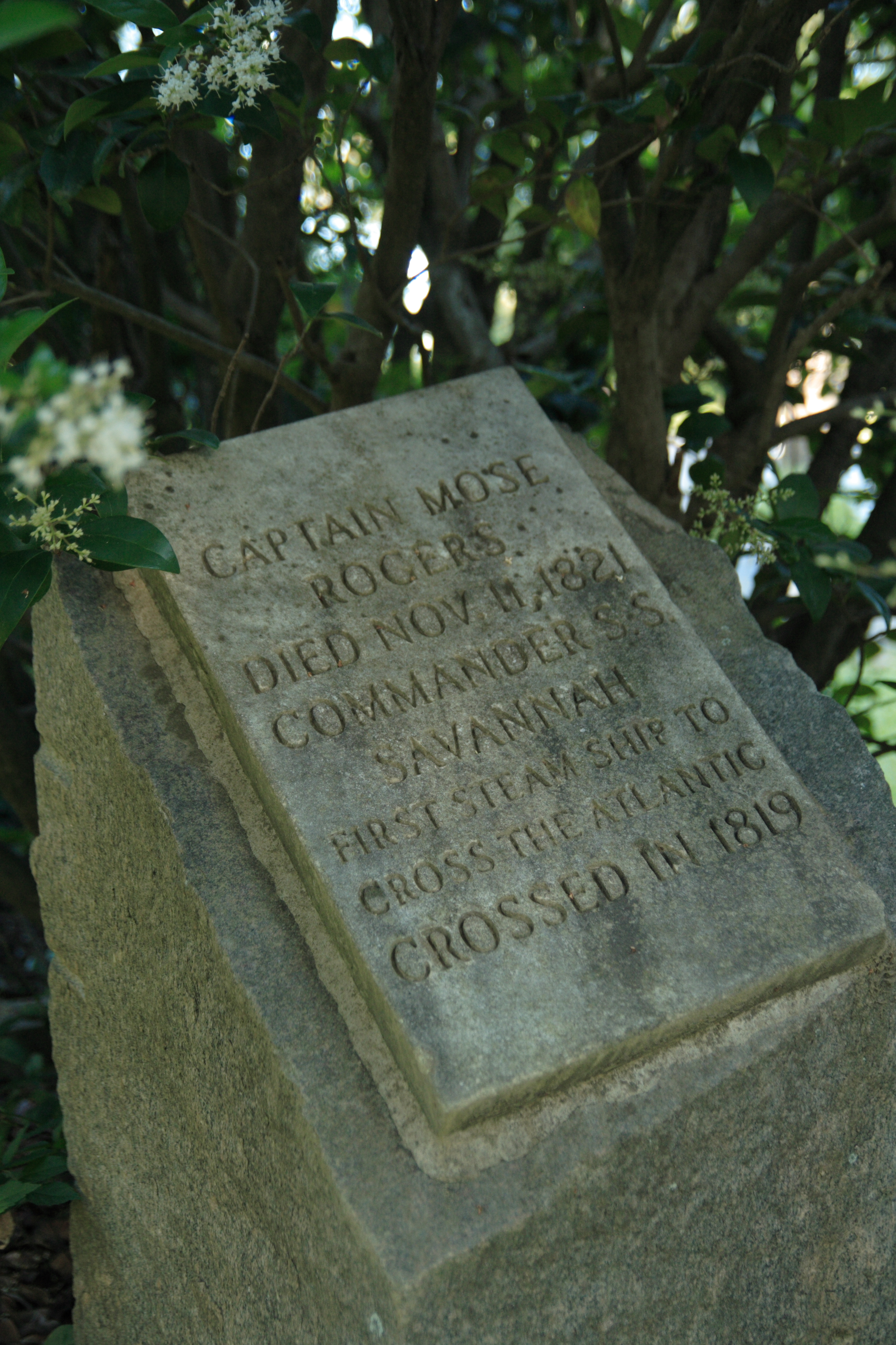 Tombstone of Captain Mose Rogers of the first transatlantic steamship Savannah. Located in Old St David's Cemetery, Cheraw, South Carolina, USA